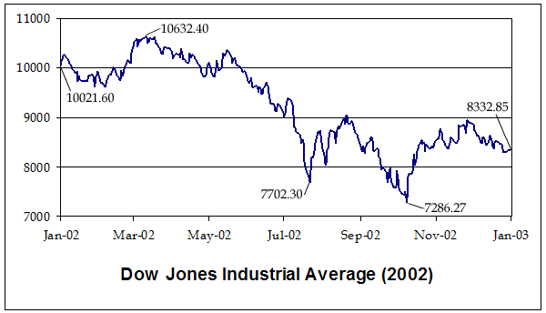 Chart of the Dow Jones Industrial Average during 2002. Source: Yahoo! Finance Values graphed in Microsoft Excel and edited with Adobe Photoshop. Image released into public domain by User:Minesweeper.